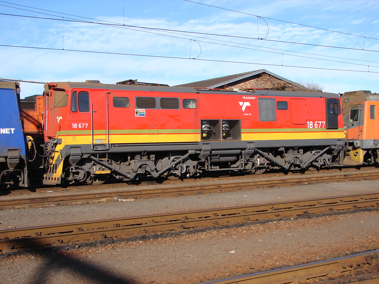 TFR Class 18E Series 2 18-677Location: Bellville Depot, Cape TownHistory: Rebuilt in 2012 from Class 6E1 Series 3 E1322